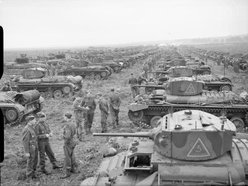 The British Army in the United Kingdom 1939-45 Valentine tanks of the 17th/21st Lancers, 6th Armoured Division, lined up for an inspection by the King near Brandon in Suffolk, 12 September 1941.